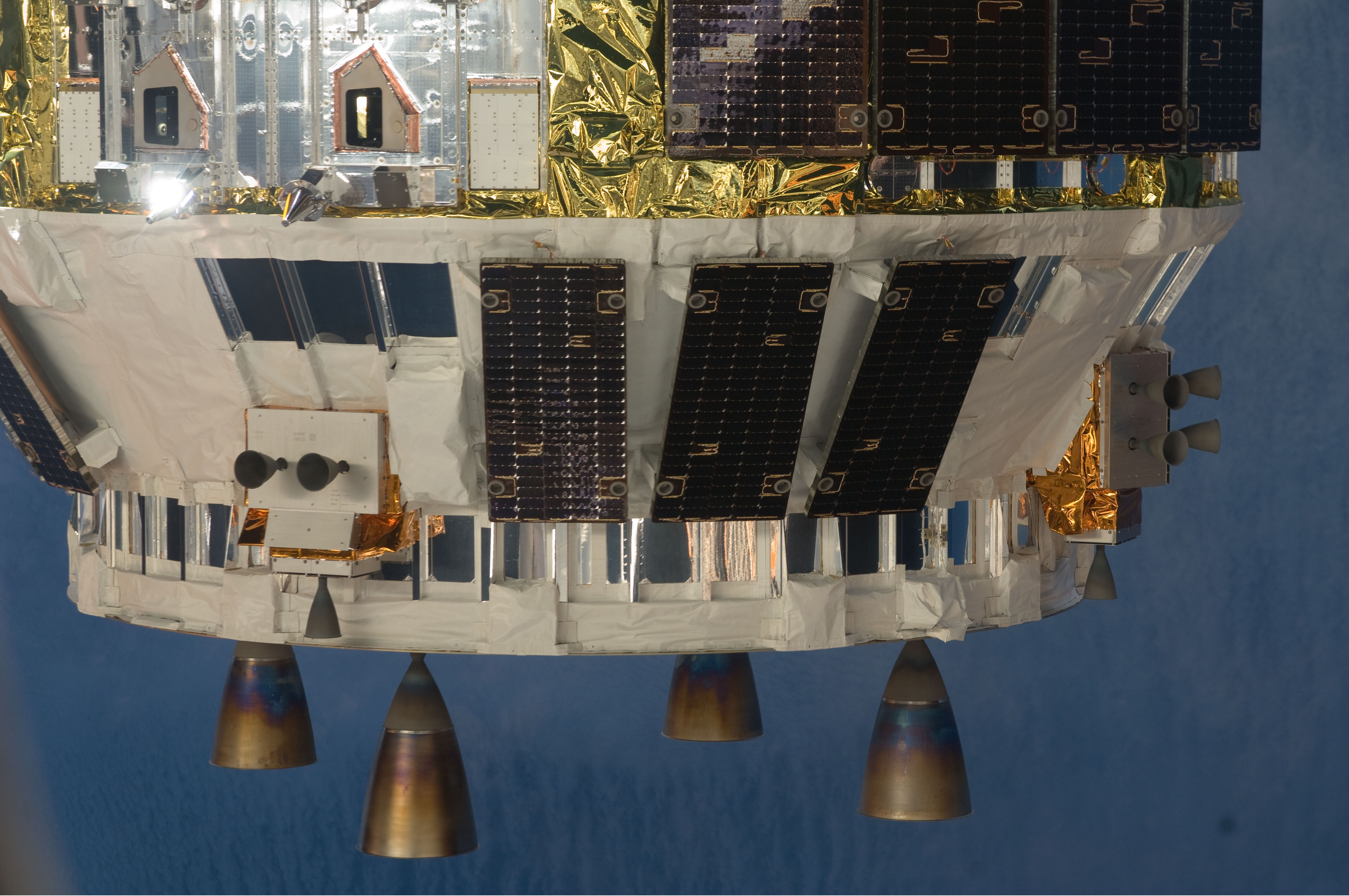 A close-up view of a portion of the unpiloted Japanese H-II Transfer Vehicle (HTV) as it arrives at the International Space Station.